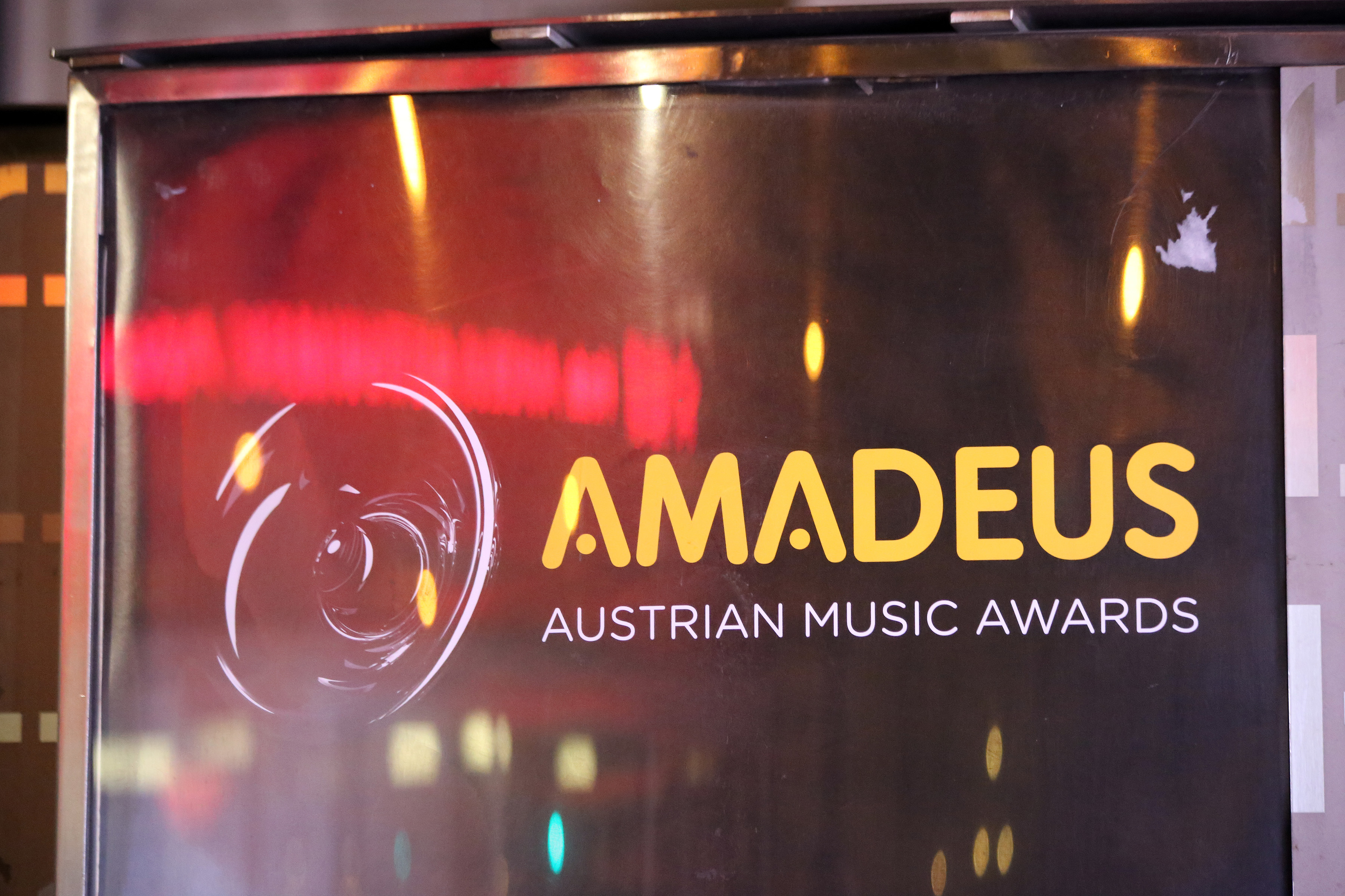 Amadeus Austrian Music Award 2014 at Volkstheater in Vienna